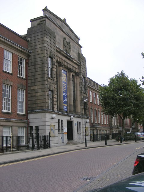 Wolverhampton University Building The original polytechnic entrance is now part of the University.